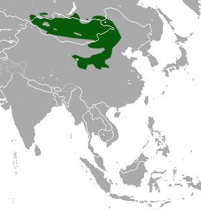 Daurian Pika (Ochotona dauurica) range